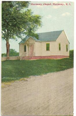 This is a postcard of Harmony Chapel Cemetery in Harmony, Rhode Island from the turn of the twentieth century. I put the scan on wikipedia.